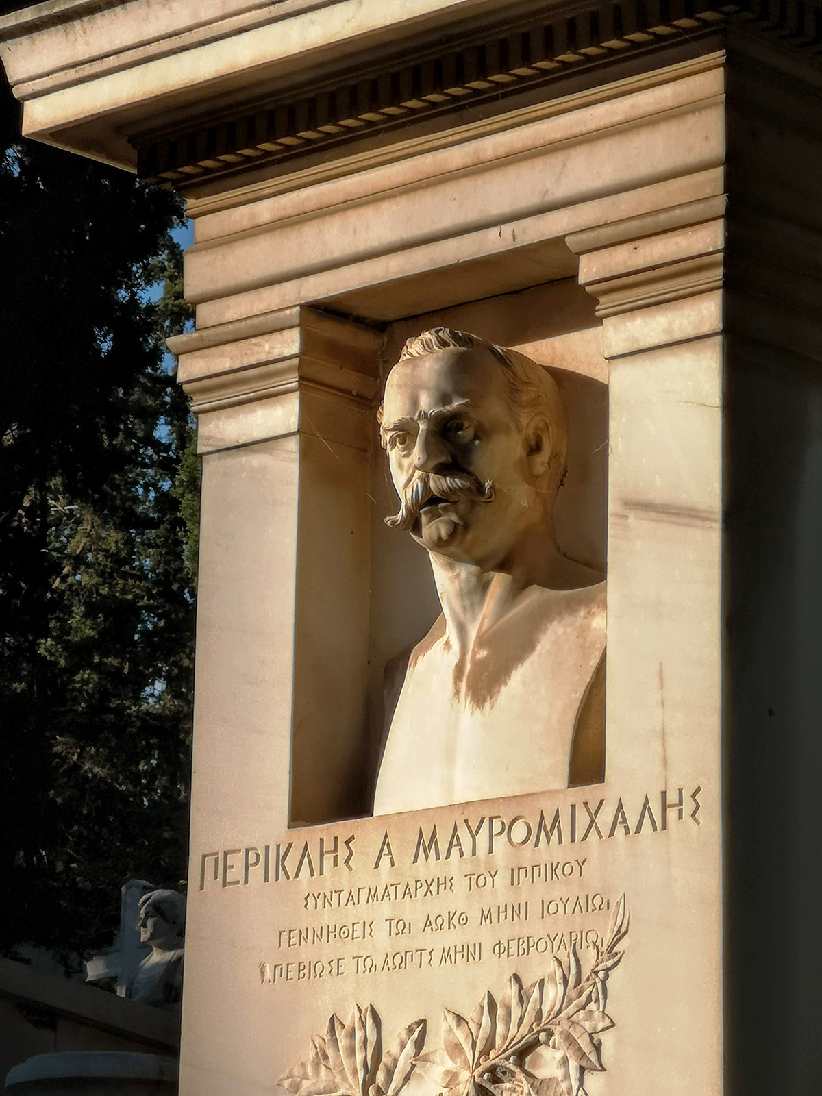 A bust of Pericles A. Mavromichalis (Περικλής Α. Μαυρομιχάλης) at the First Cemetery of Athens